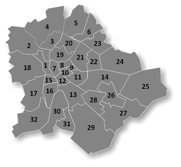 Budapest's former constituencies between 1990 and 2011 for the parliamentary elections.